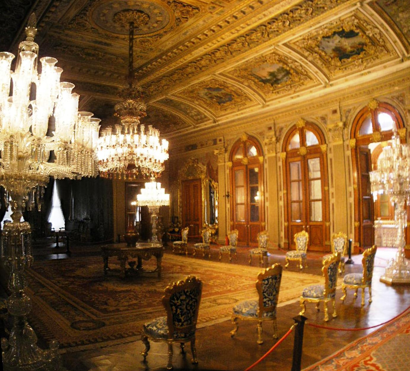 The Blue Hall (Mavi Salon) in Dolmabahçe Palace.